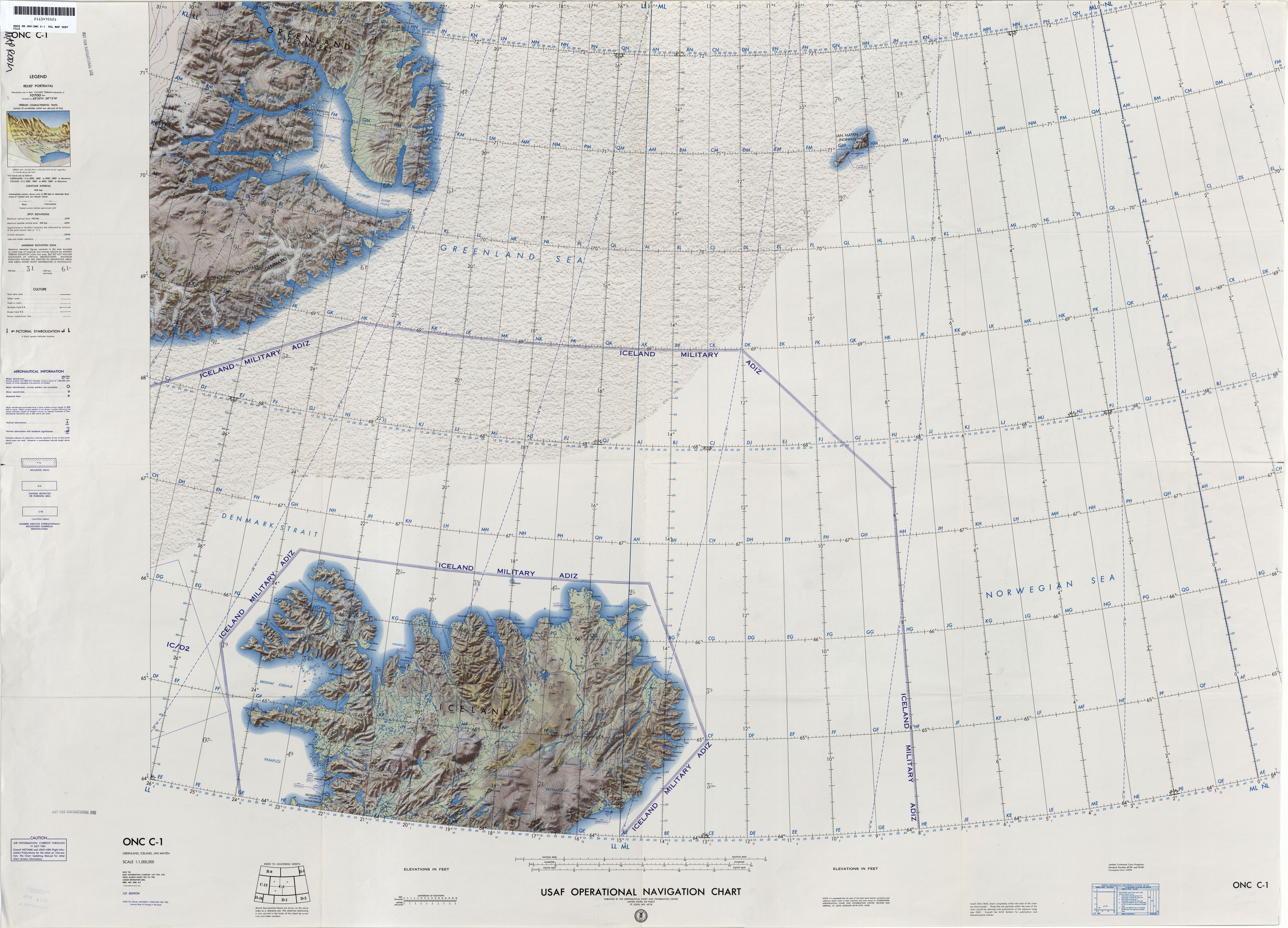 1:1,000,000 scale Operational Navigation Chart, Sheet C-1, 1st edition. Covers Greenland (Denmark), Iceland, Jan Mayen (Norway). Lambert Conformal Conic Projection. Standard Parallels 65 20N and 70 40N. Center longitude 12 45W.